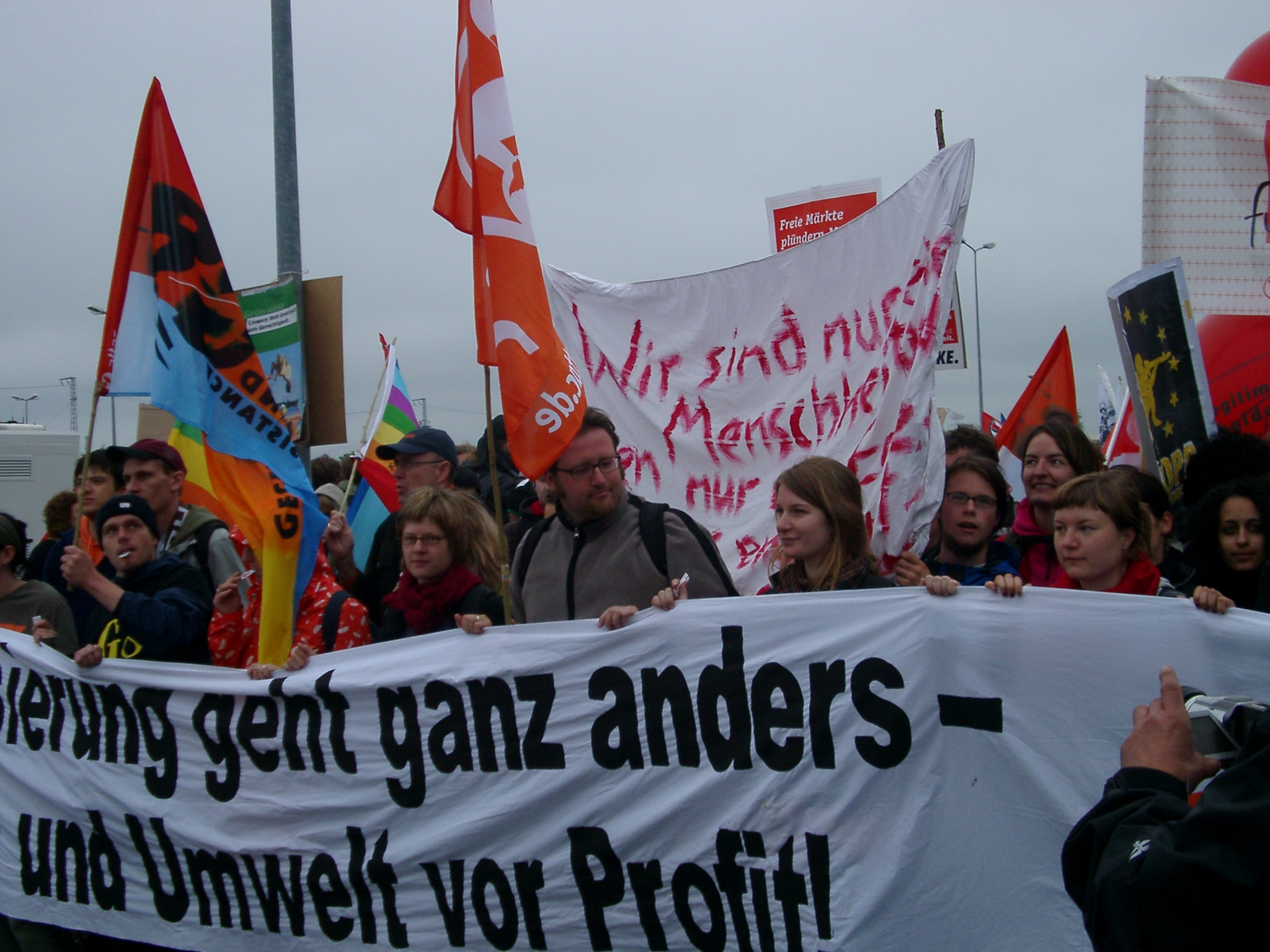 demonstration in Rostock on June 2nd 2007, attac block main station place